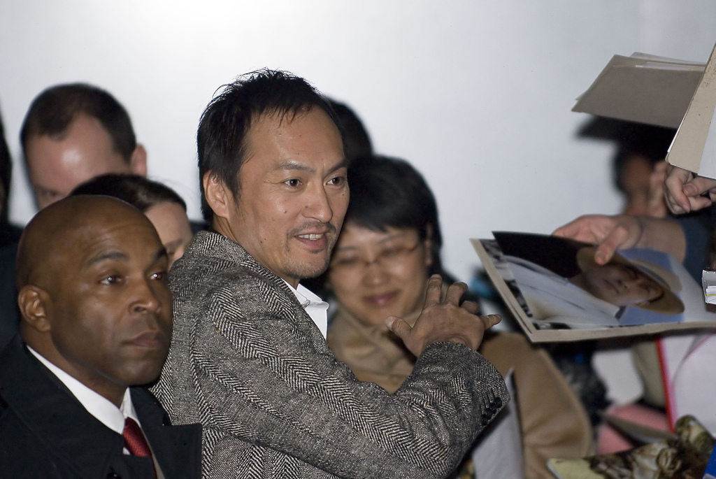 Ken Watanabe leaving the press conference for "Letters from Iwo Jima", Hyatt Hotel, Potsdamer Platz, Berlin